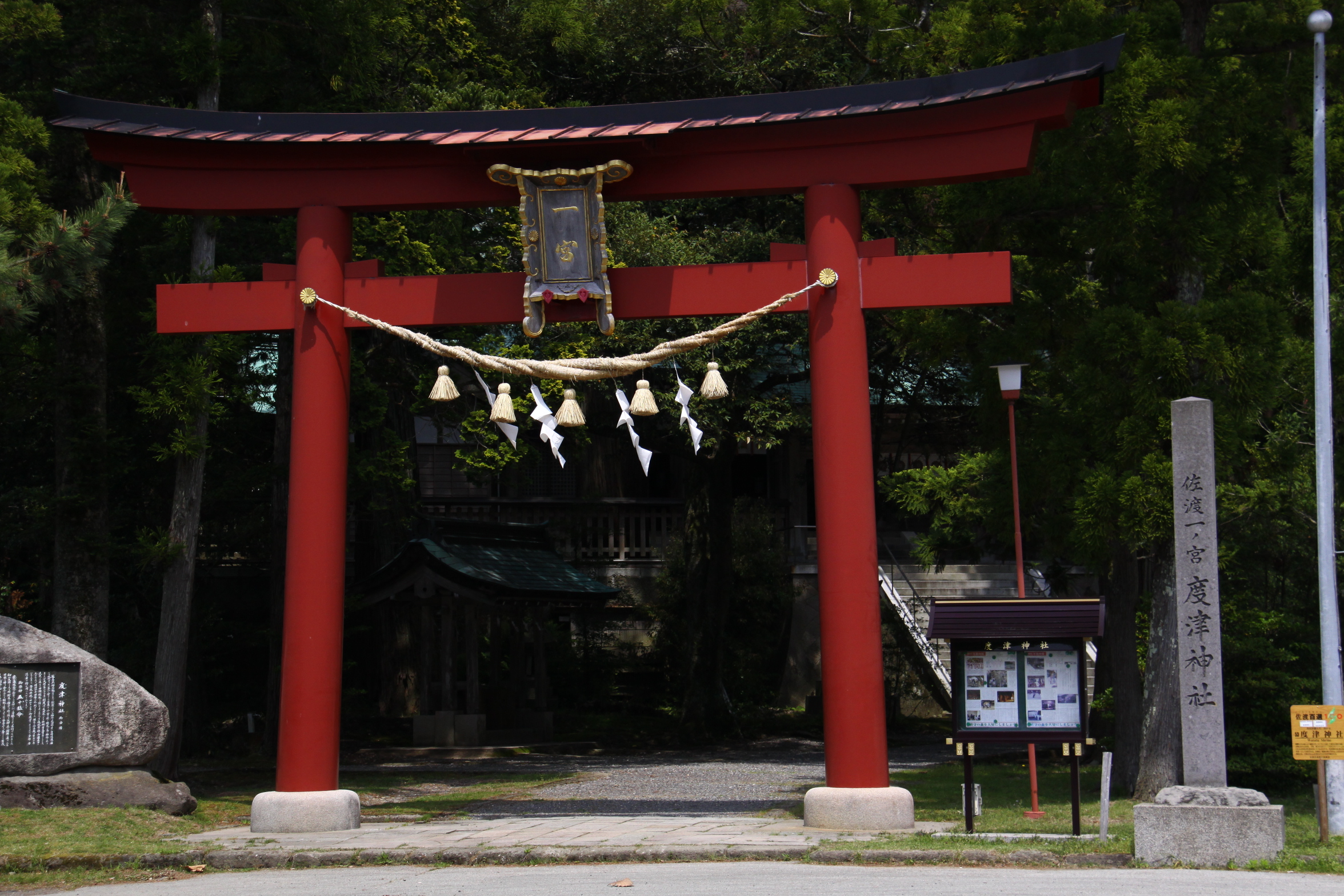 Watatsu jinja 2nd Gate